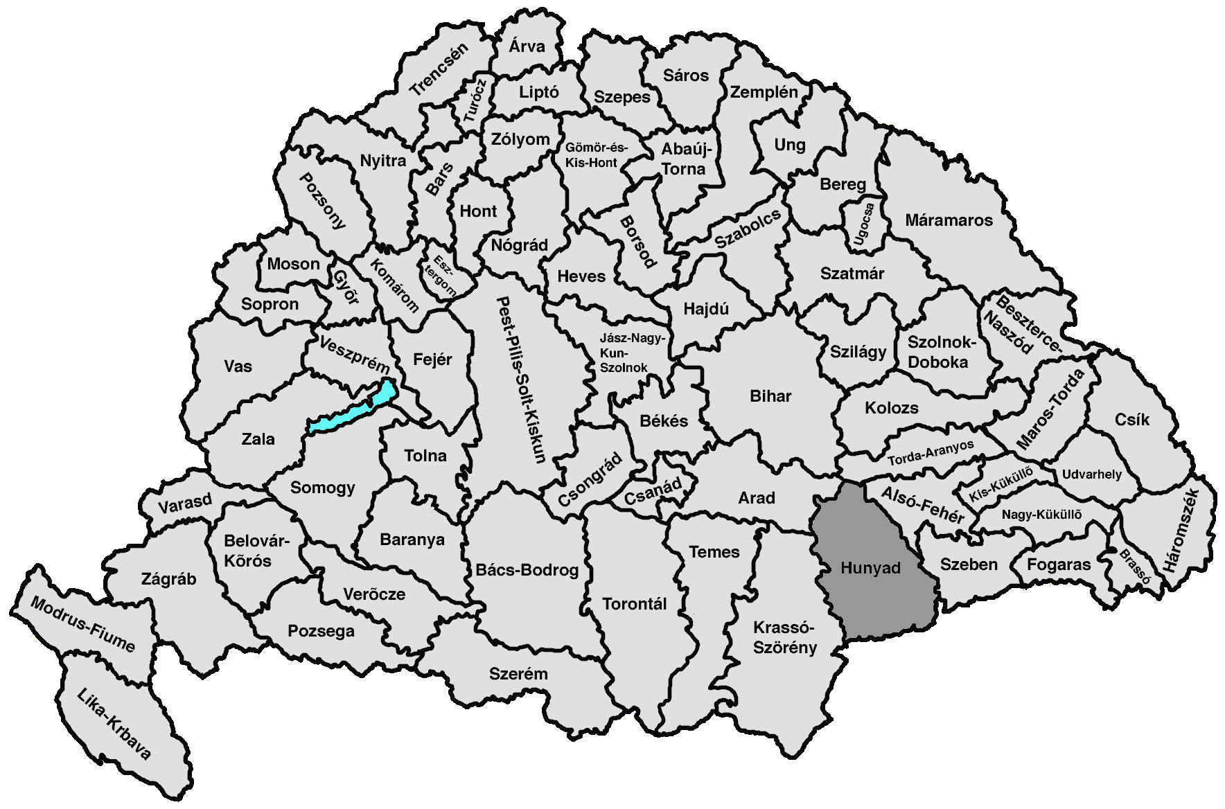 own edit of Image:Zala.png